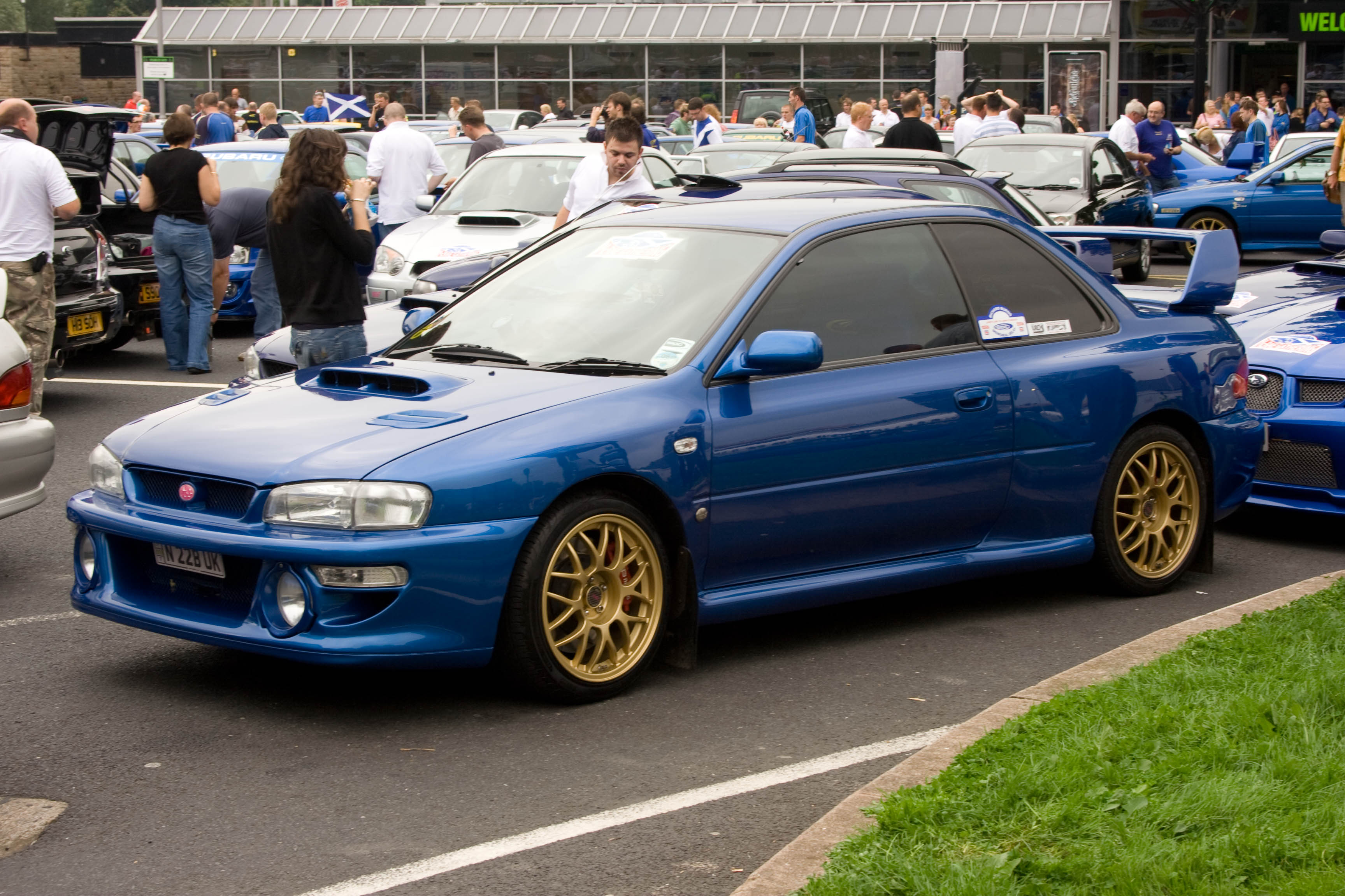 Subaru Impreza 22B STi-Version.